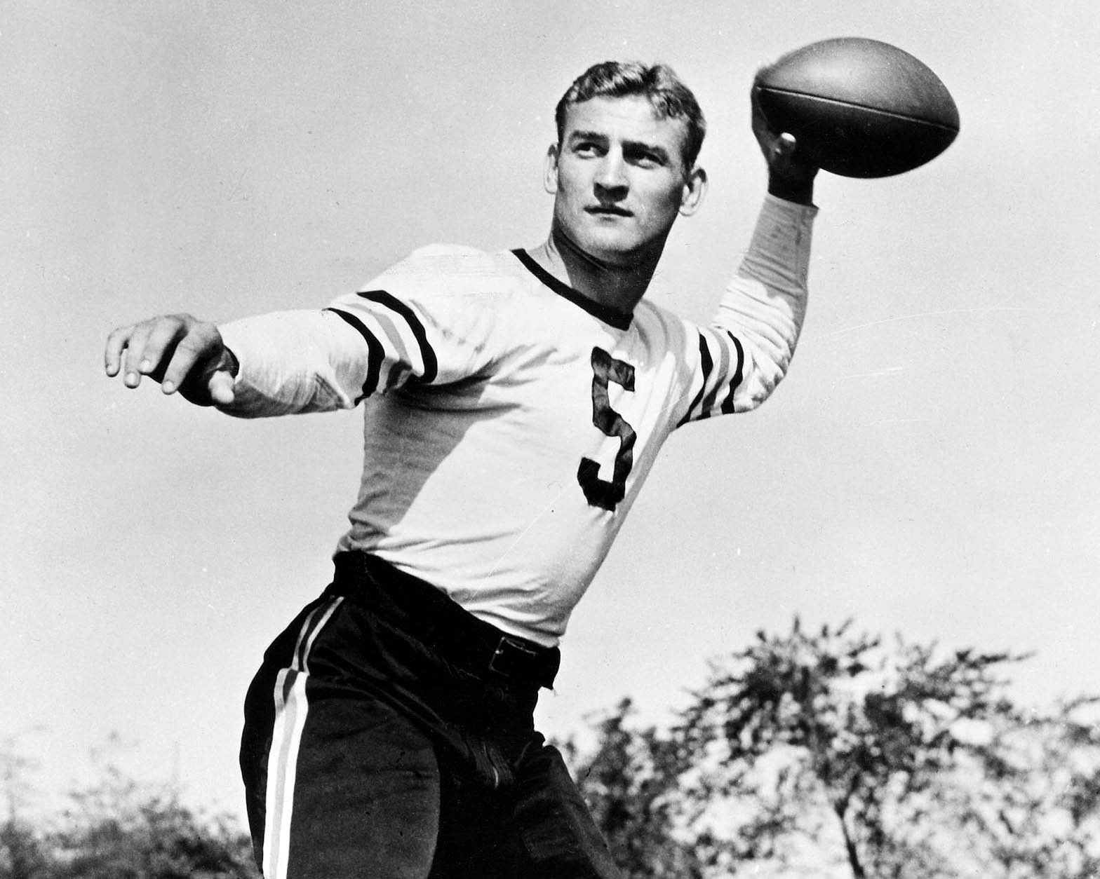 Former american football player and Pro Football Hall of Fame member, George McAfee, while playing for the Chicago Bears.